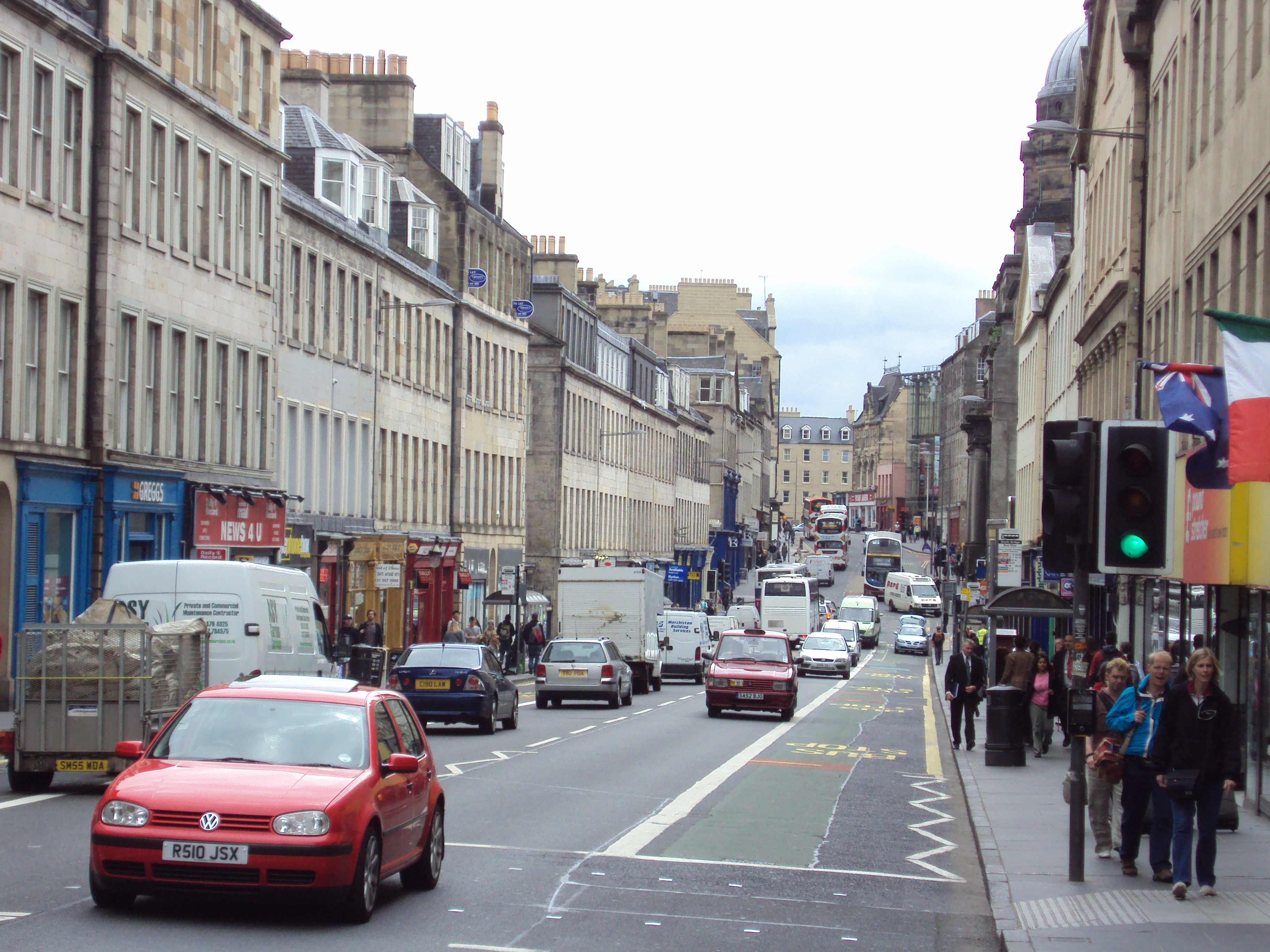 The A7 South Bridge at Edinburgh city centre, Scotland.